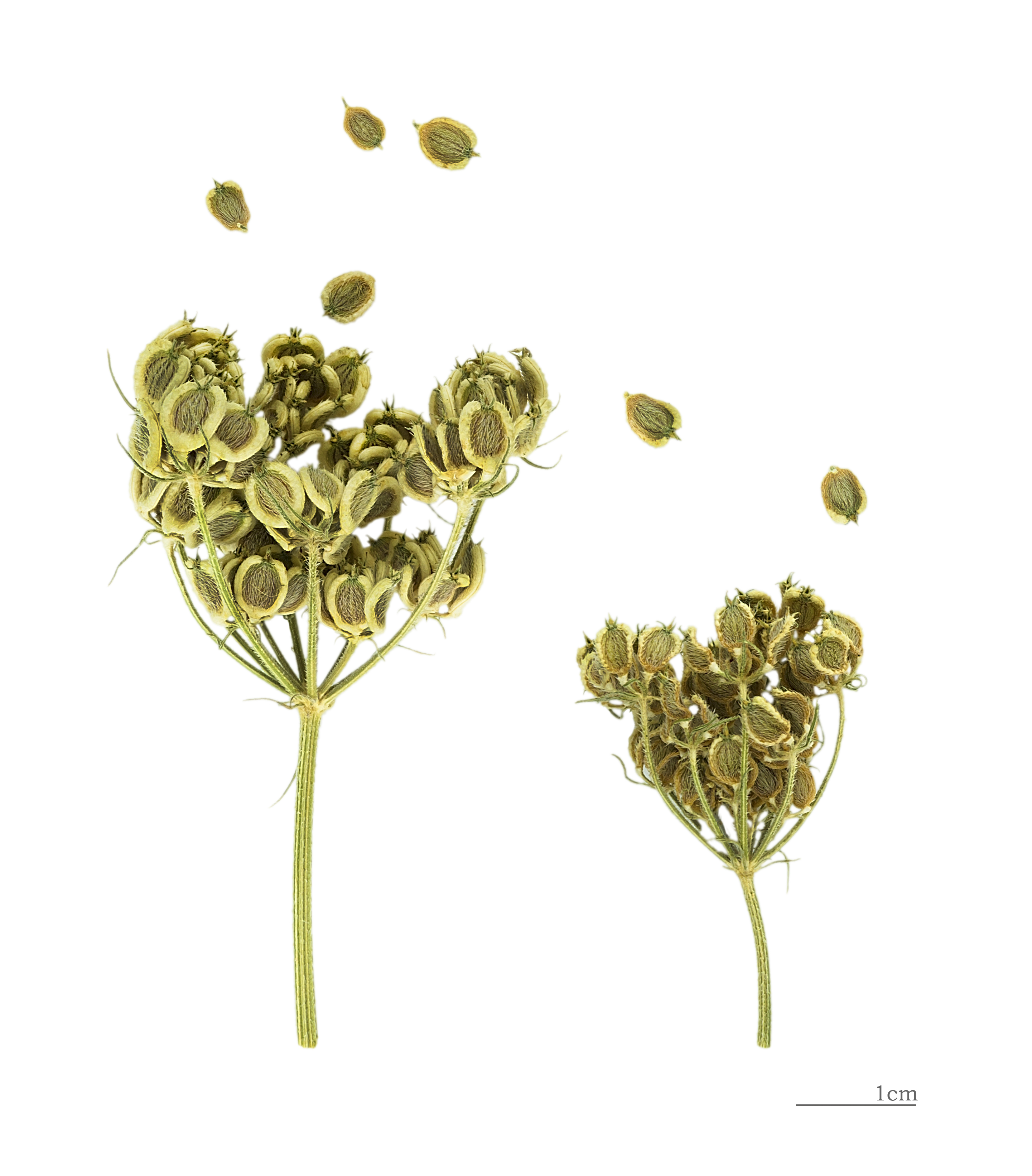 Tordylium maximum, Fruits and seeds